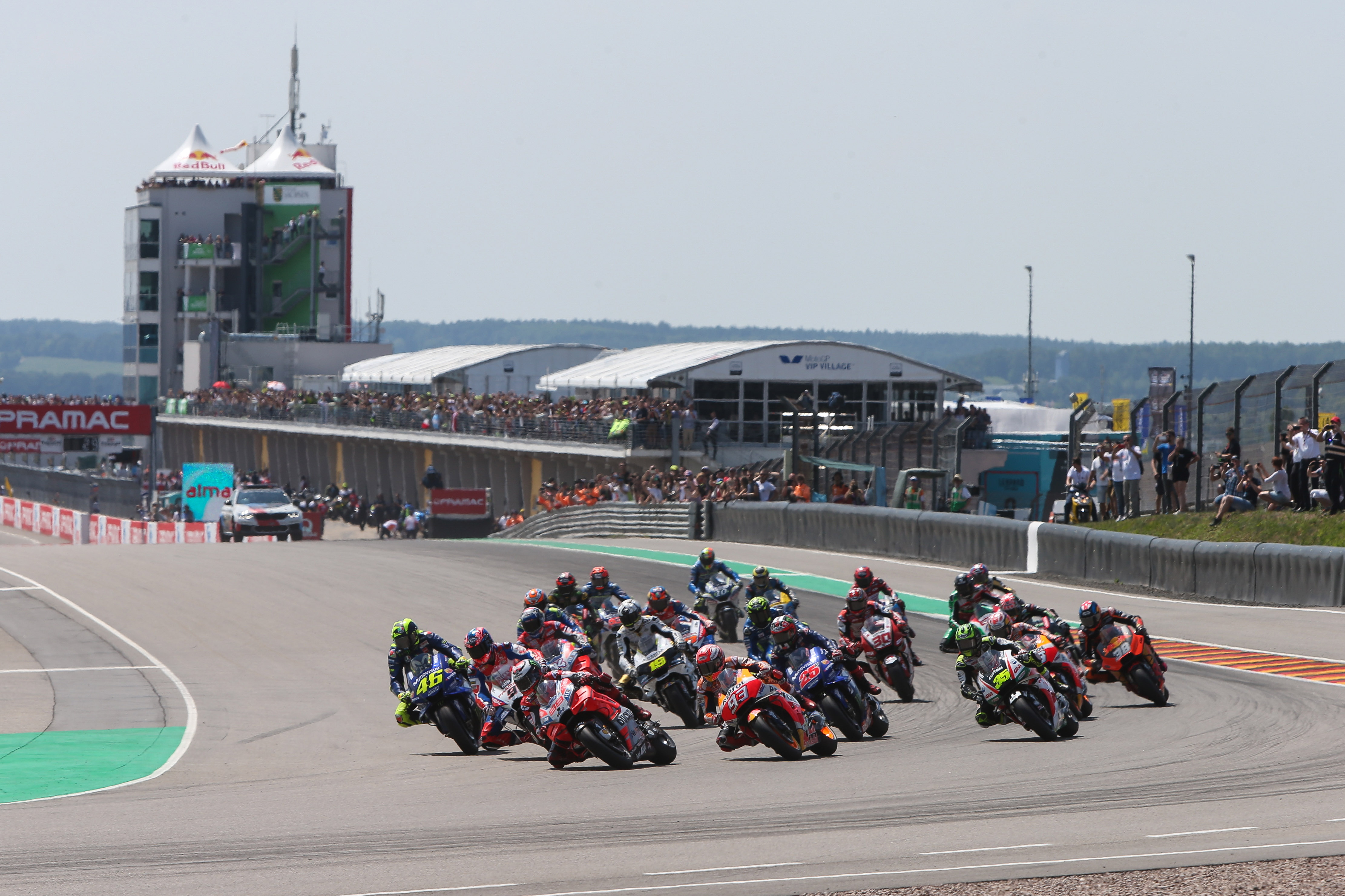 Jorge Lorenzo, riding his Factory Ducati, leading the pack on the opening lap of the 2018 German Grand Prix.